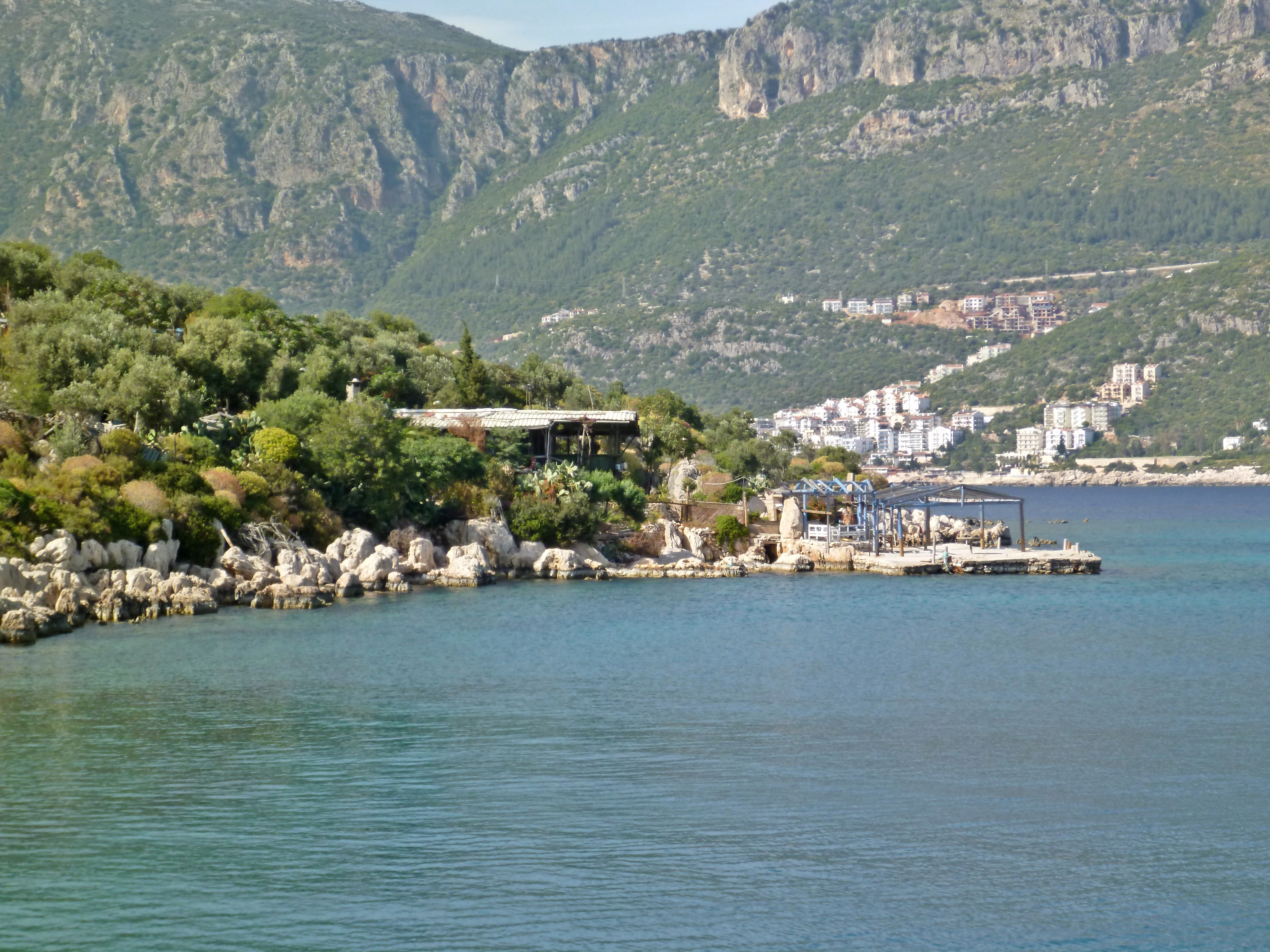 Parts of an old Aquaculture in the bight of Kaş. In the background the village Kaş